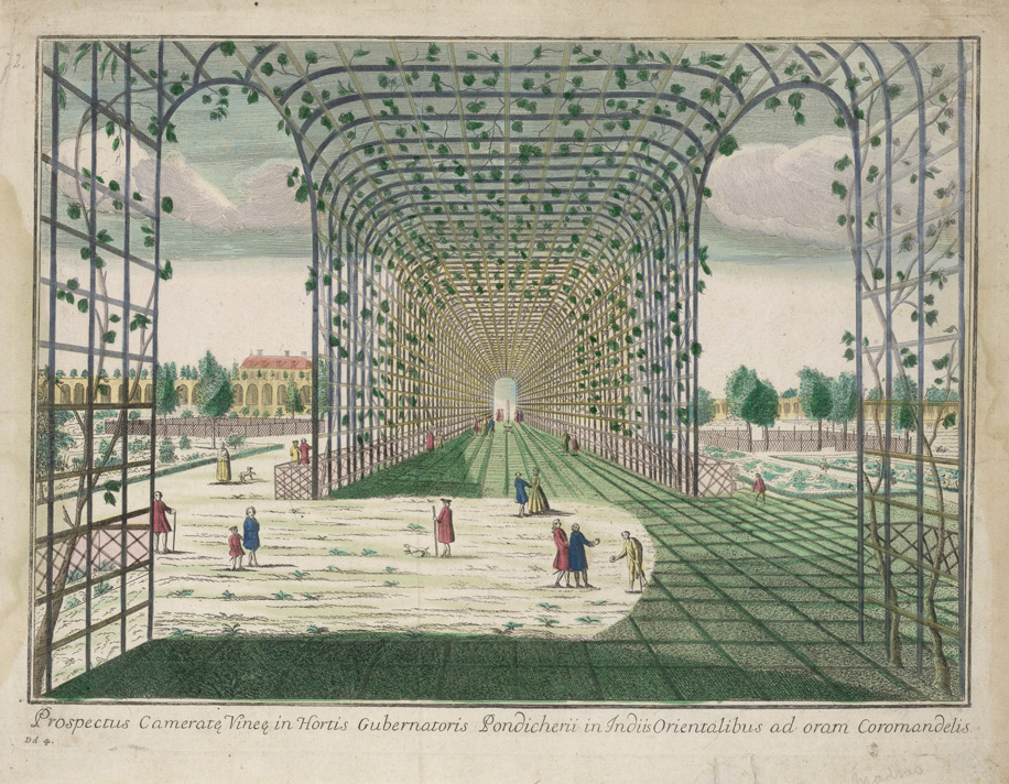 Coloured etching by an anonymous artist of a trellis arcade supporting a vine in the Governor's Garden at Pondicherry in Tamil Nadu, probably published in India in the late 18th century.